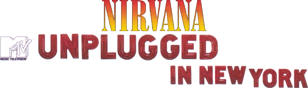 The logotype for the album "MTV Unplugged in New York " by Nirvana.